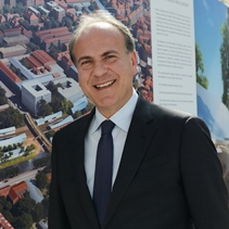 Gianfranco Battisti